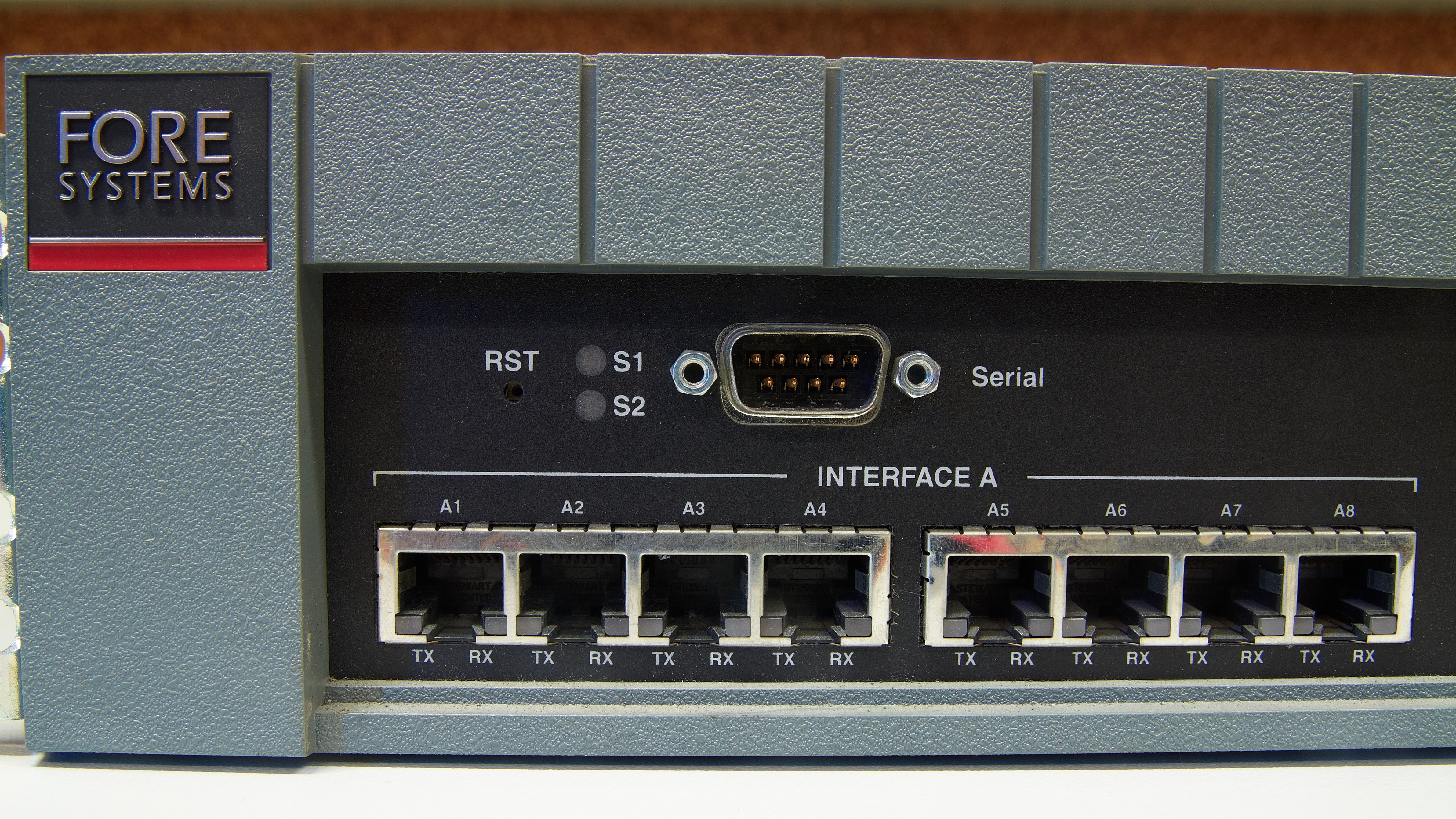 FORE Systems ForeRunnerLE 25 Mbps Asynchronous Transfer Mode (ATM) switch.